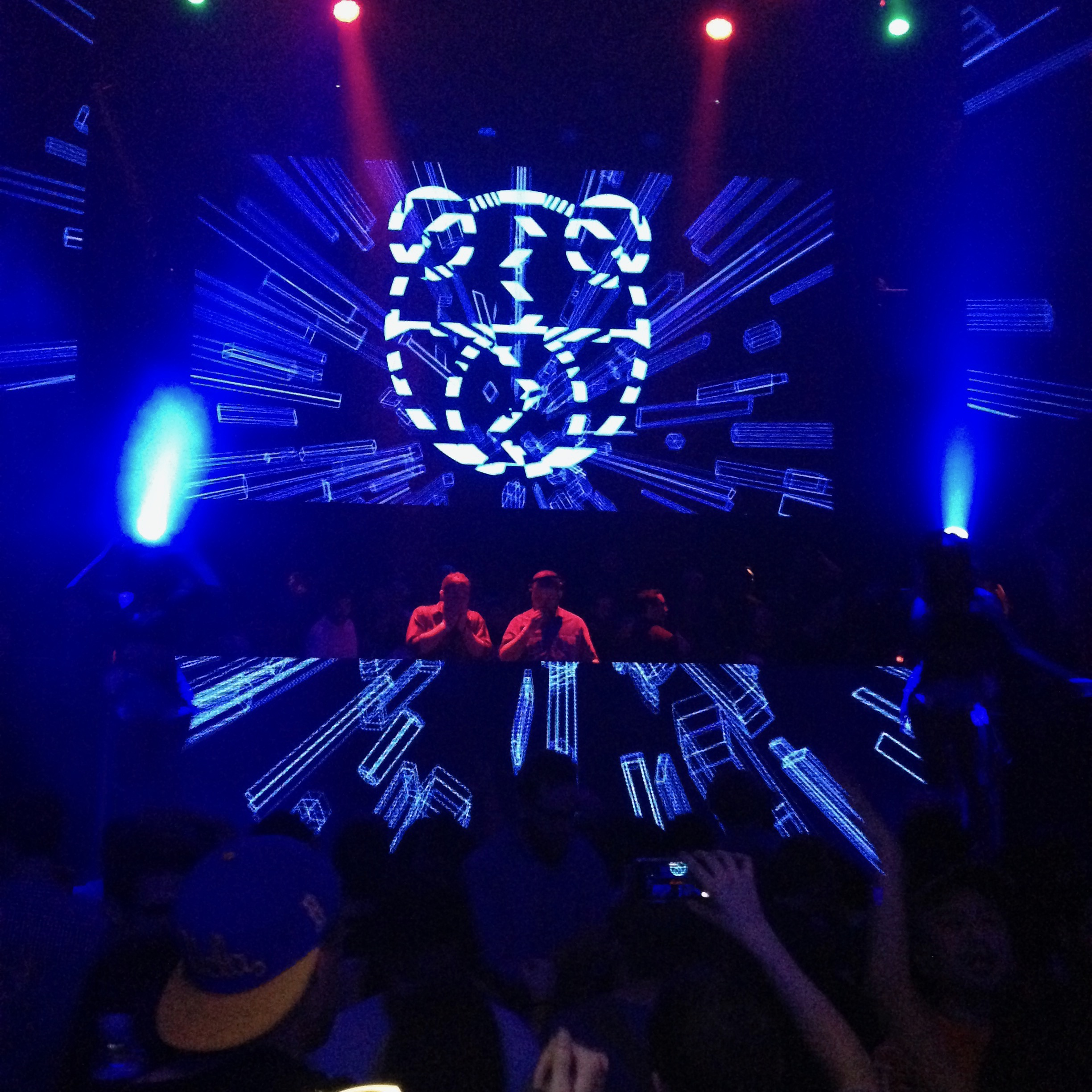 The 2 Bears perform at a DFA anniversary party